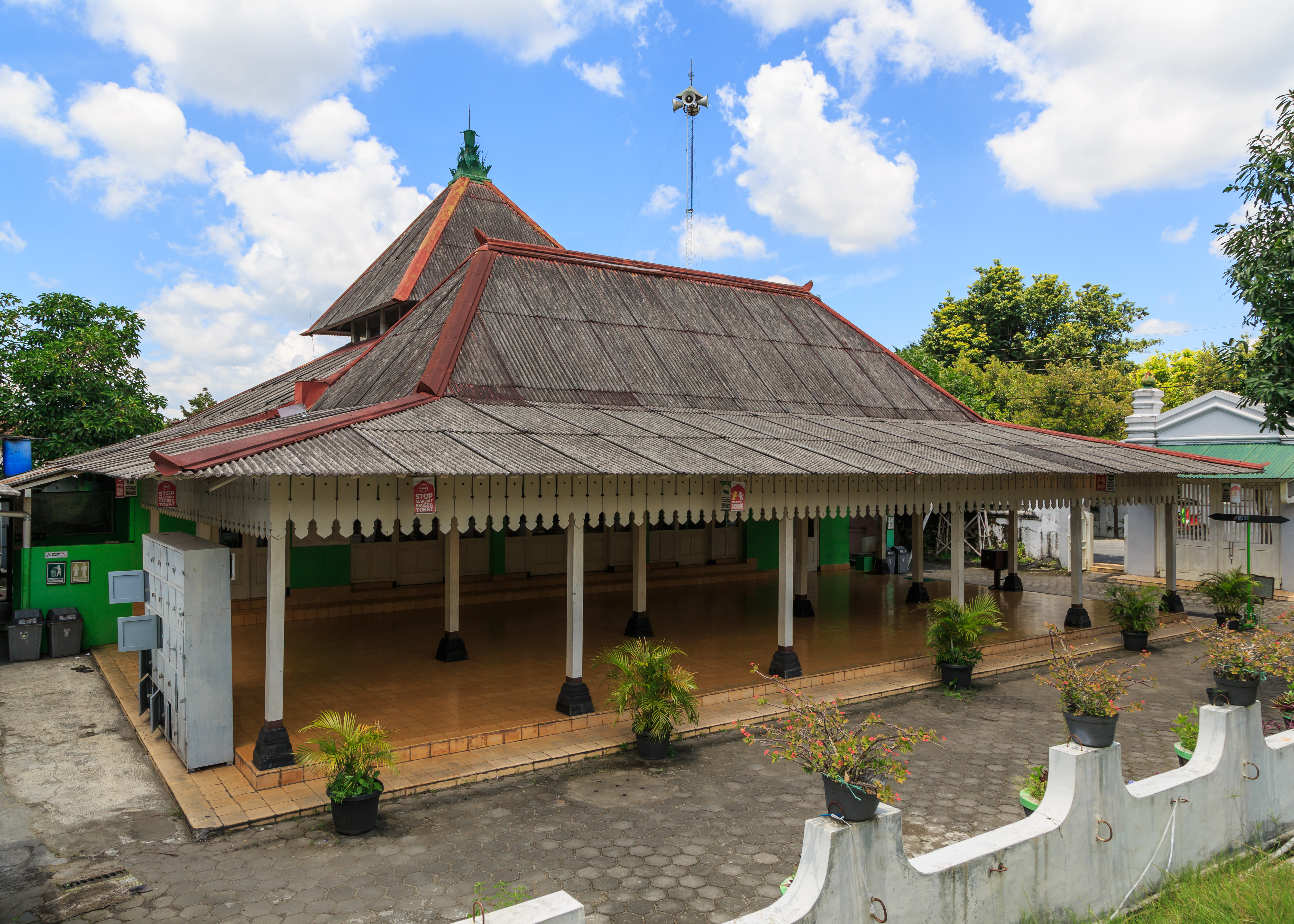 Yogyakarta, Indonesia: Soko Tunggal Mosque near Taman Sari.